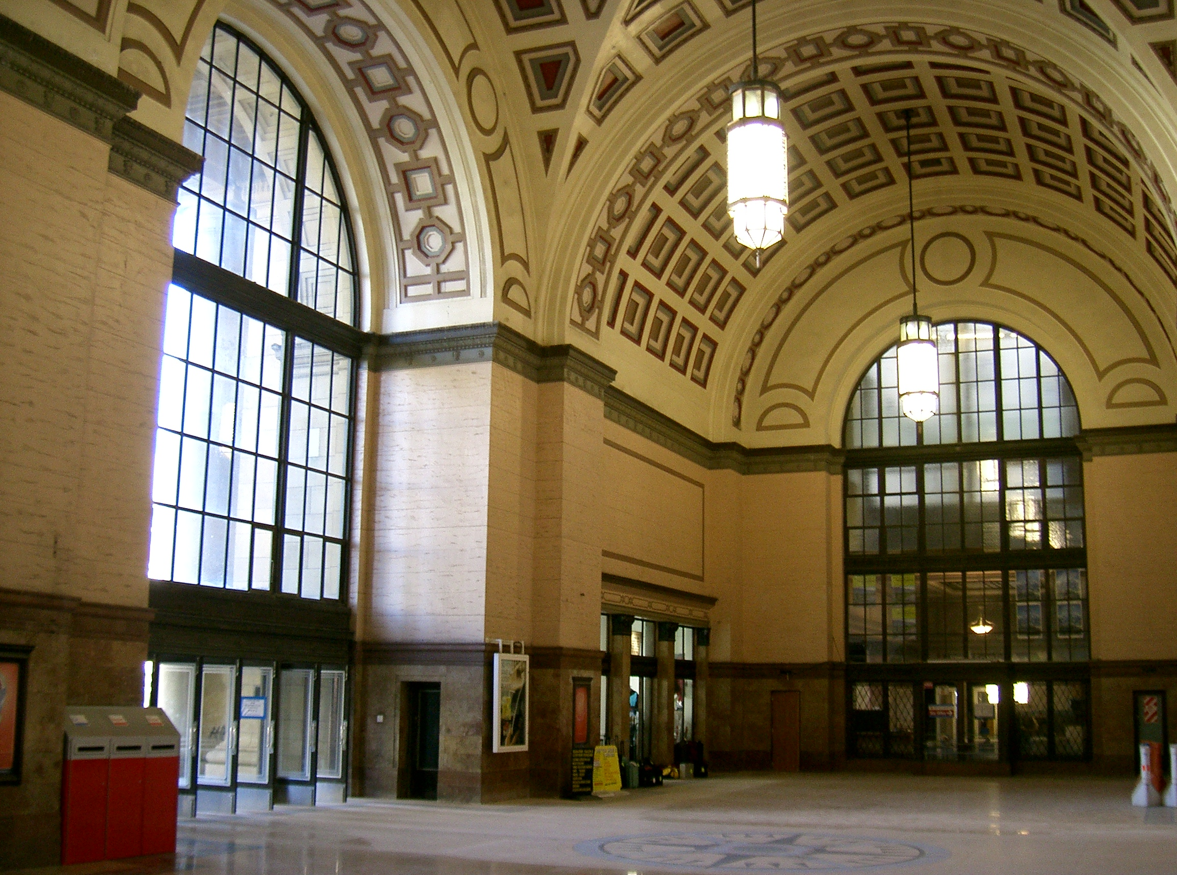 Wellington Railway Station, booking hall. Wellington, New Zealand